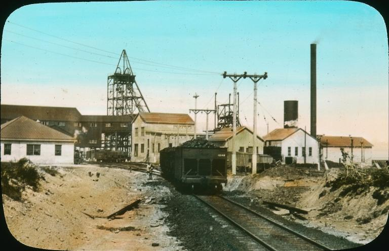 Photograph, glass lantern slide, Coal mine, Glace Bay, NS, about 1930, Anonymous, Silver salts and transparent ink on glass - Gelatin dry plate process - 8 x 10 cm